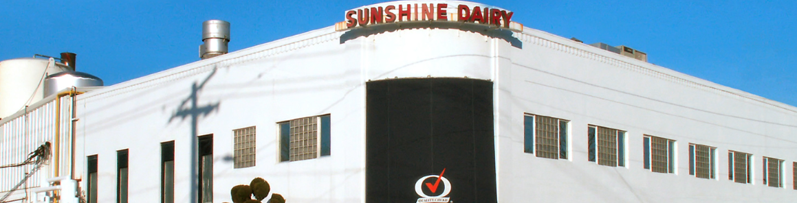 Outside of Sunshine Dairy at 801 NE 21st ave., Portland OR